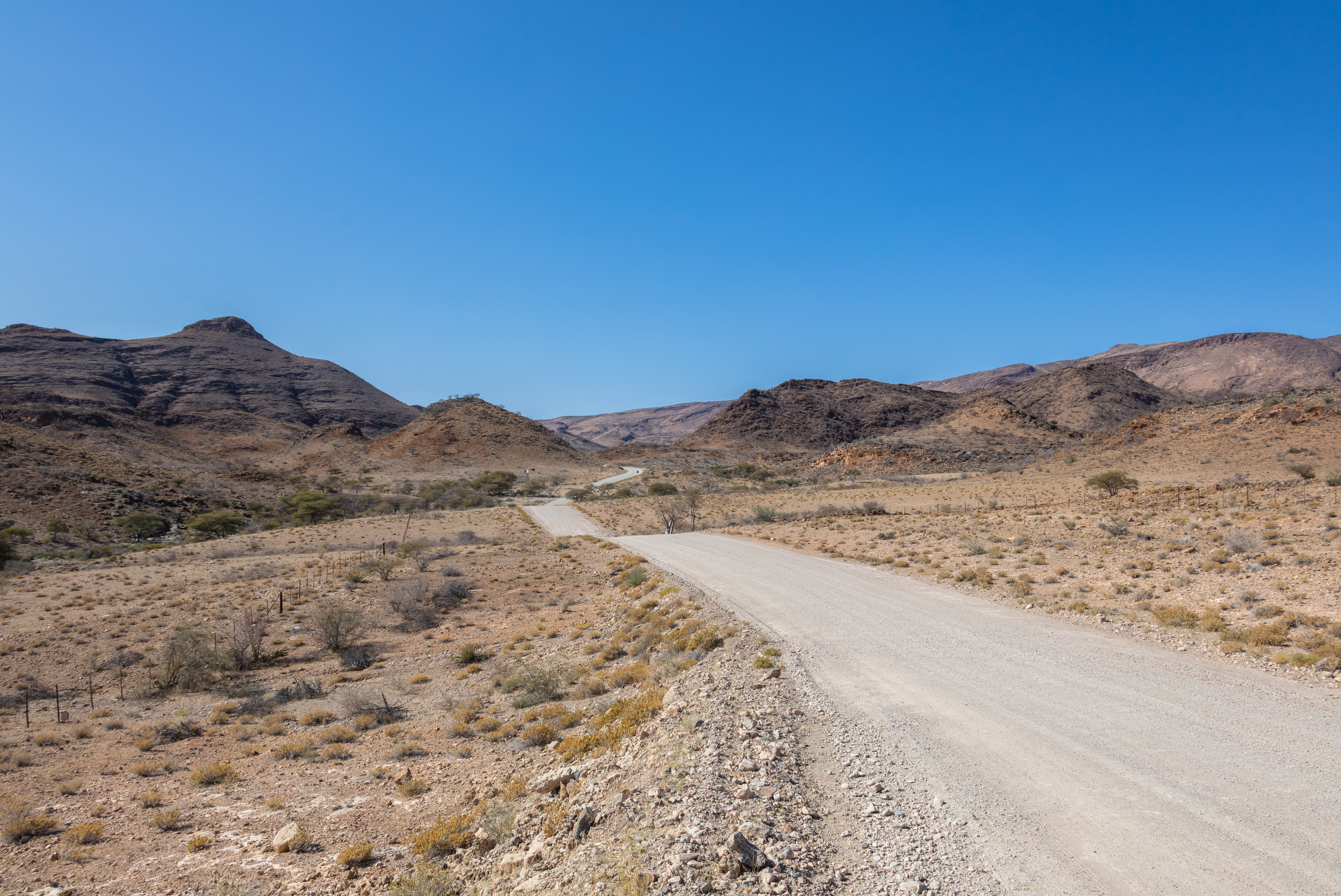 Landscape in Namib-Naukluft National Park, Sossusvlei, Namibia